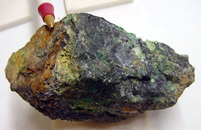 Argentite - Pen for scale. Mineral collection of Bringham Young University Department of Geology, Provo, Utah. Photograph by Andrew Silver. BYU index 2-5032, Ag_2S.